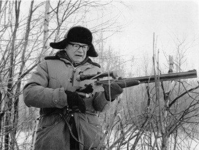 Finland's president Urho Kekkonen with a gun. Photo taken in Zavidovo, Russia.